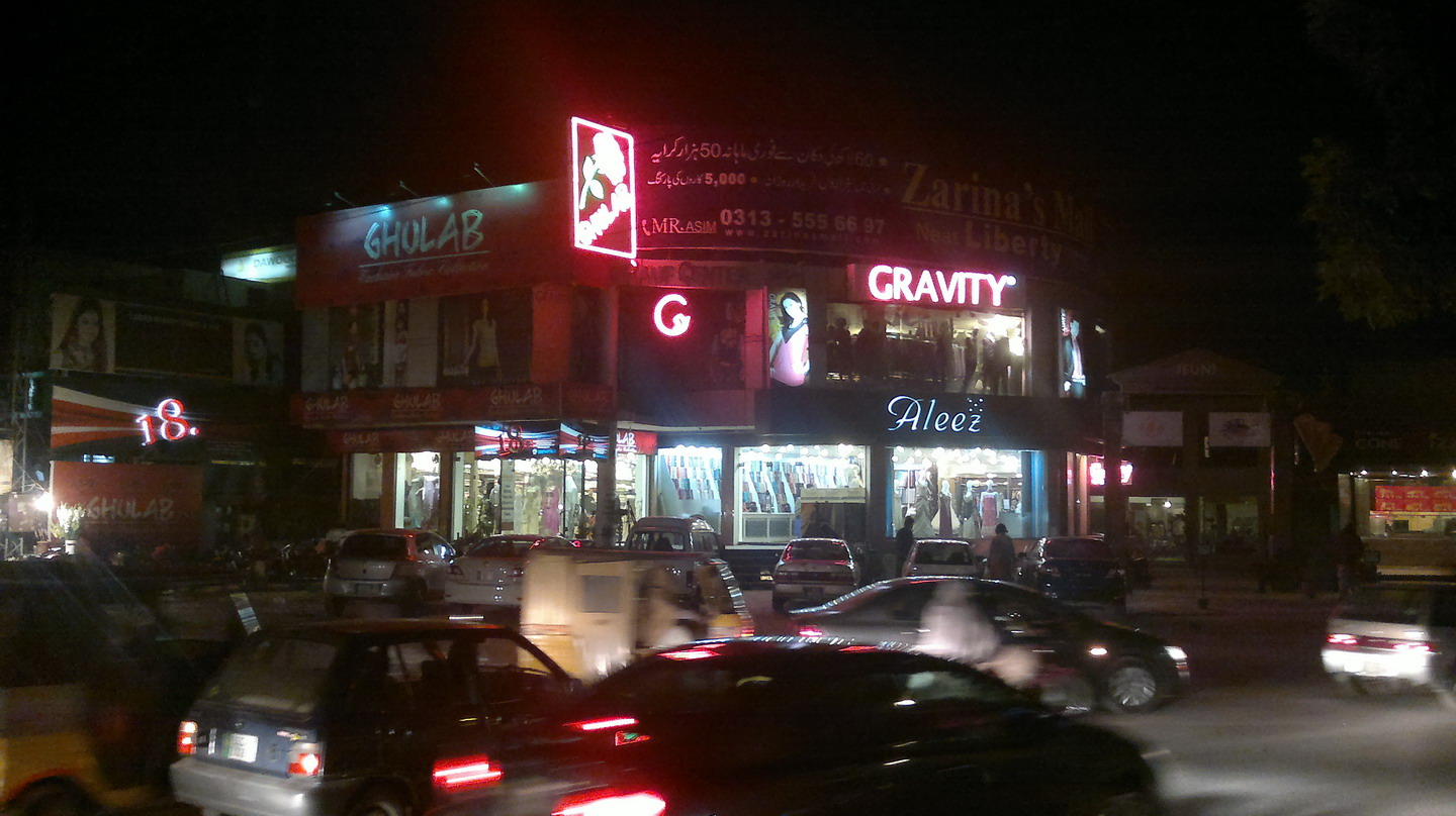 MM Alam Road 5